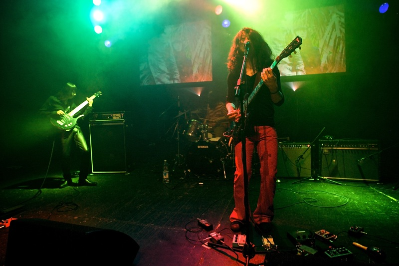 Yura Yura Teikoku 2009/05/03